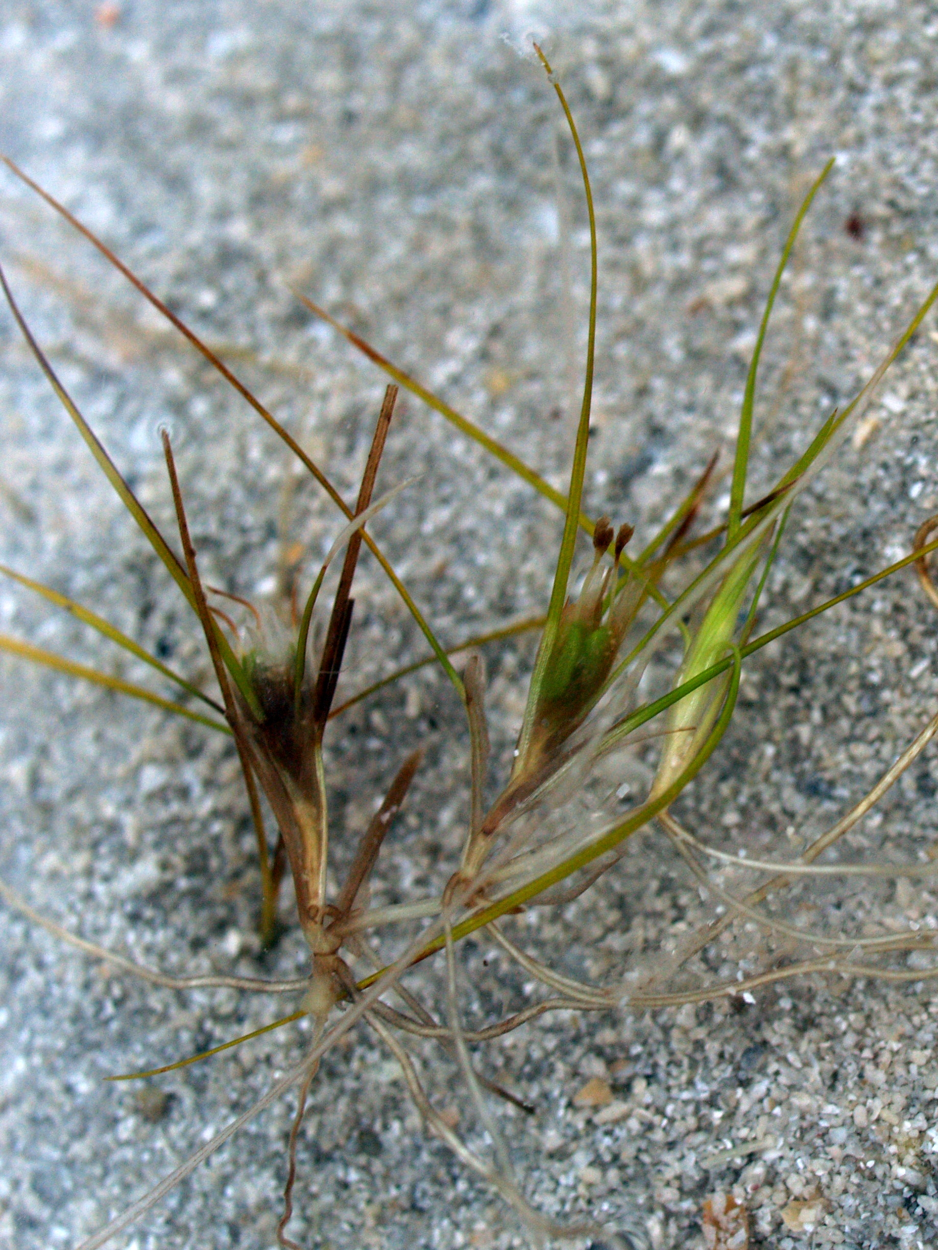 Ito, Y. (2013) Aquatic Plant Surveys in Asia, Australia, Europe, and N. America. Bunrui 13: 47-60.